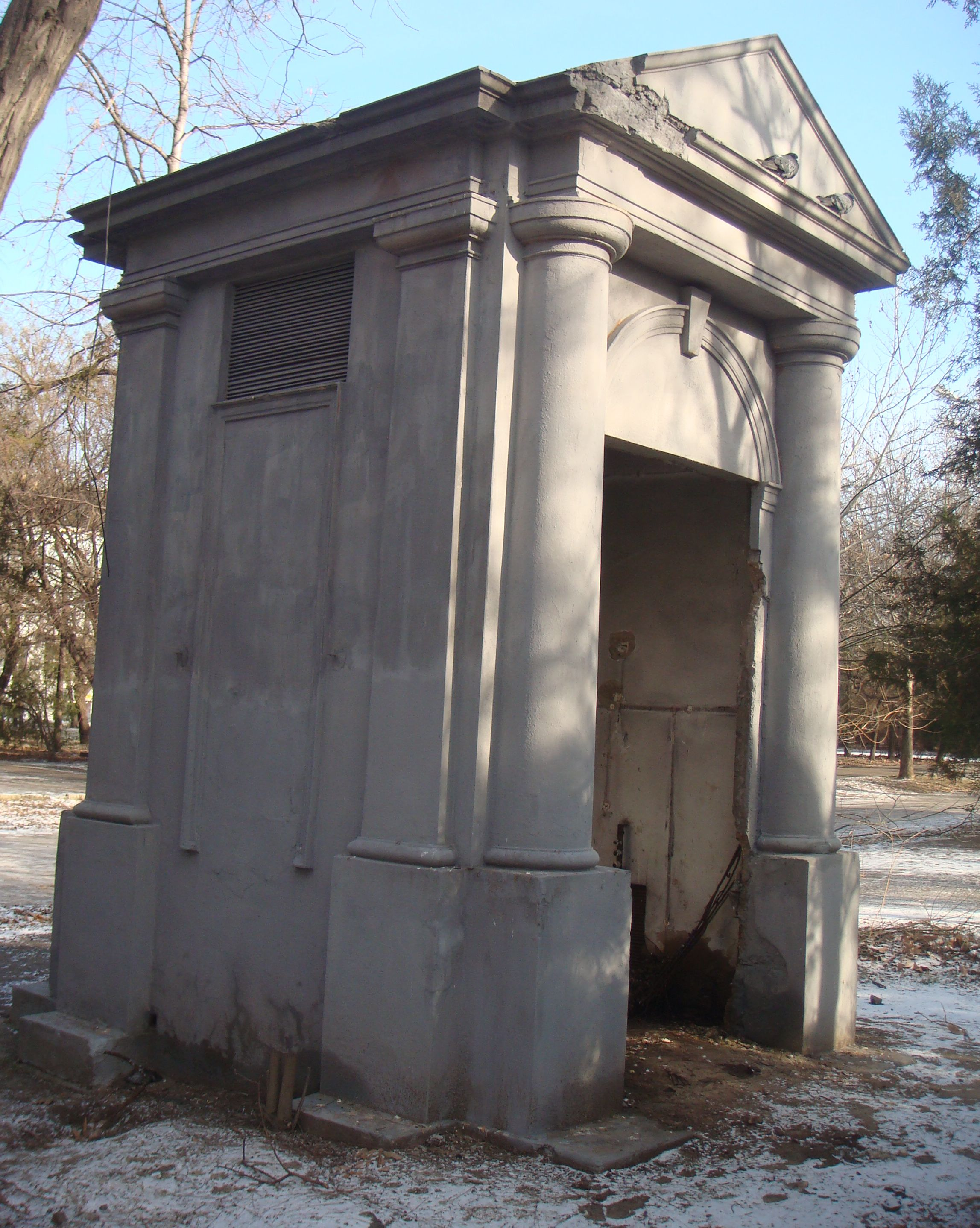 Photopicture of electrical substation. Constructed in Odessa in 1910 for first city electrical tramway. Located in Alexandrovsky park. Condition as of 2012-01-19.